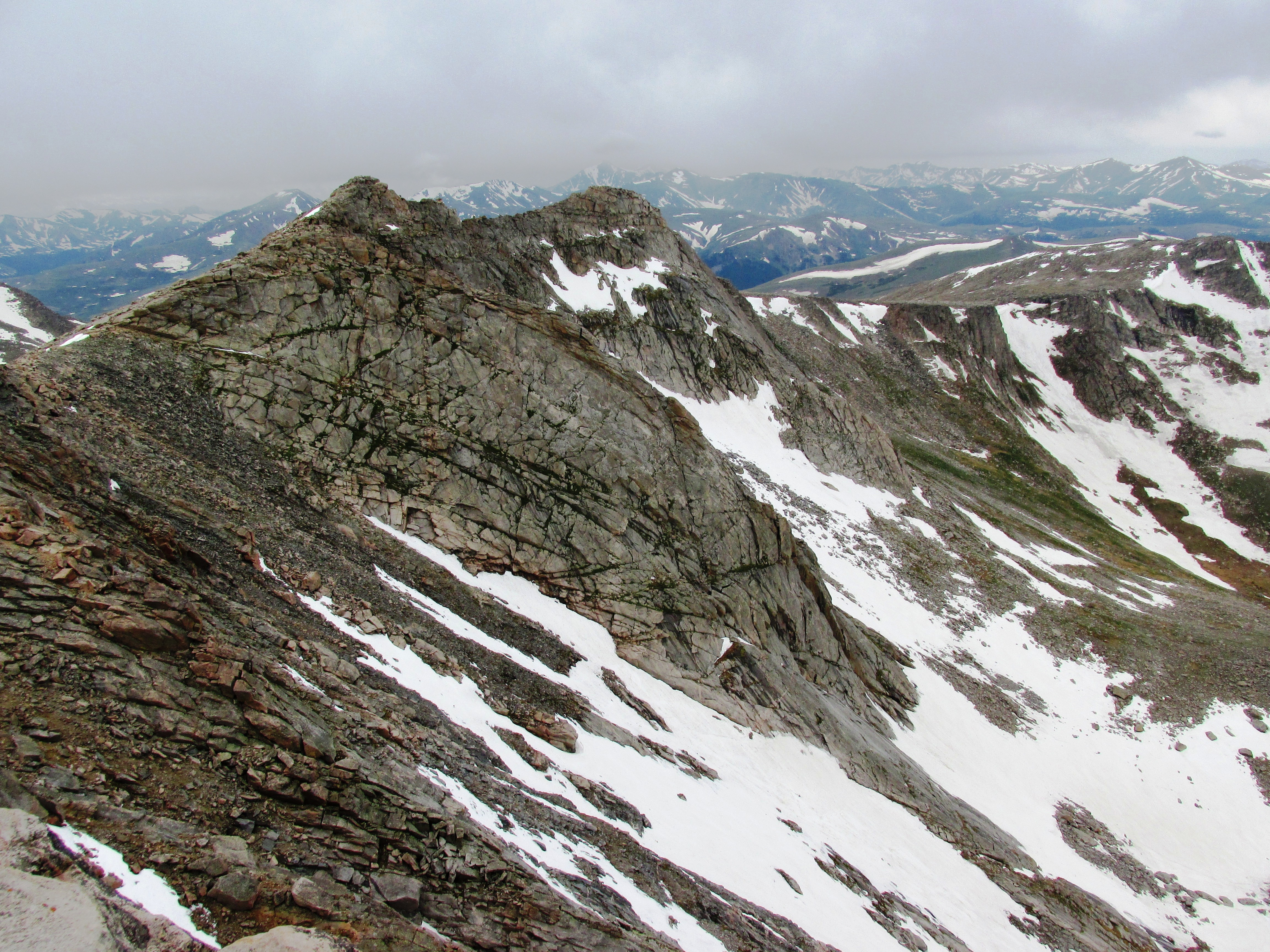 4350 meters (14271 feet) near Mount Evans summit Mount Evans, Colorado sw16 228